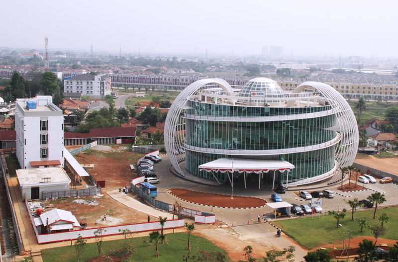 Surya Research Education Center Building, Serpong, Indonesia